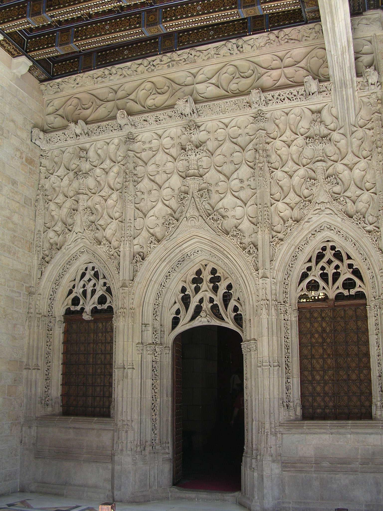 Façade of the St. George's chapel inside the Palau de la Generalitat (Catalan Government Seat) in Barcelona. 15th century - flamboyant gothic style.